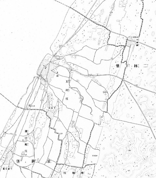 Wanggong, Taiwan (1904)